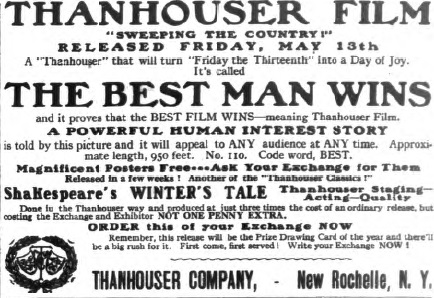 An advertisement for The Best Man Wins in The New York Dramatic Mirror, May 14, 1910